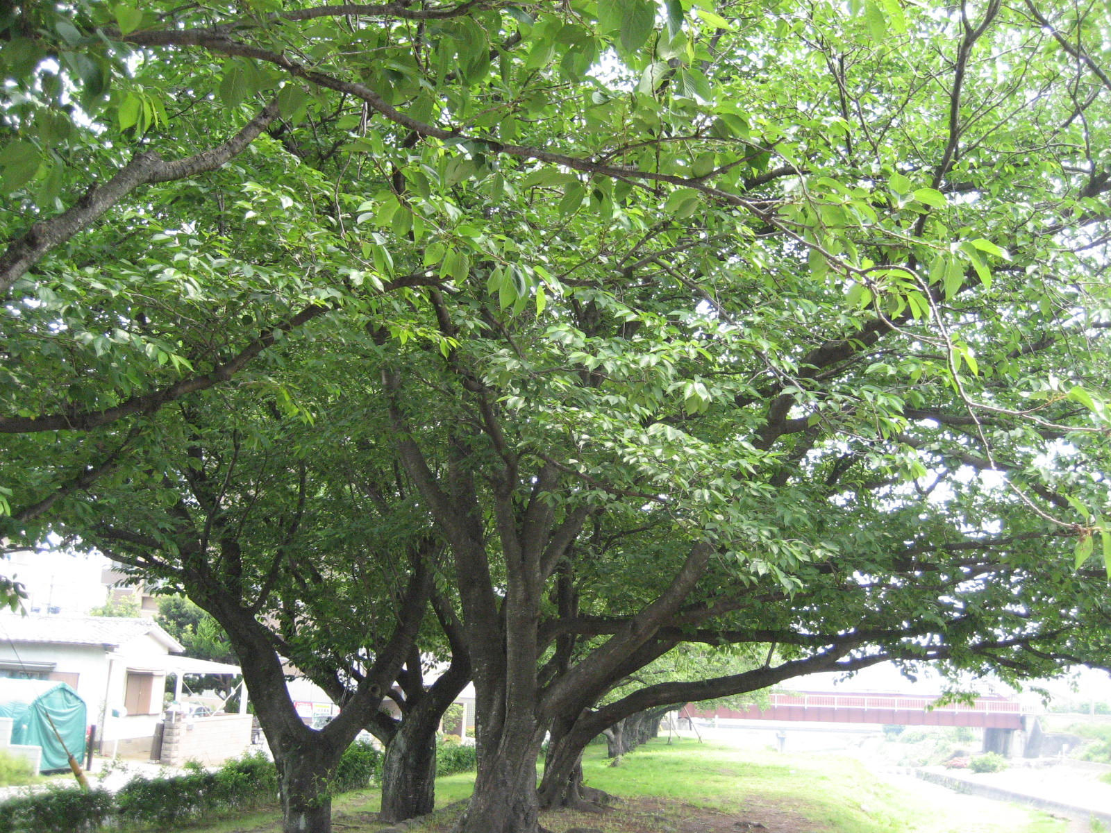 Sakura trees (2 months after its flowers blooming period)